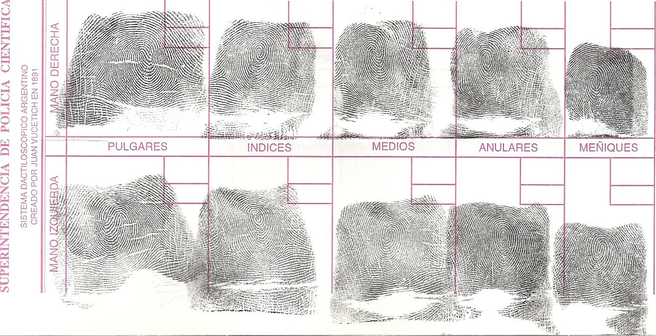 Famale ten fingerprints (red) taken by the Argentine Federal Police.